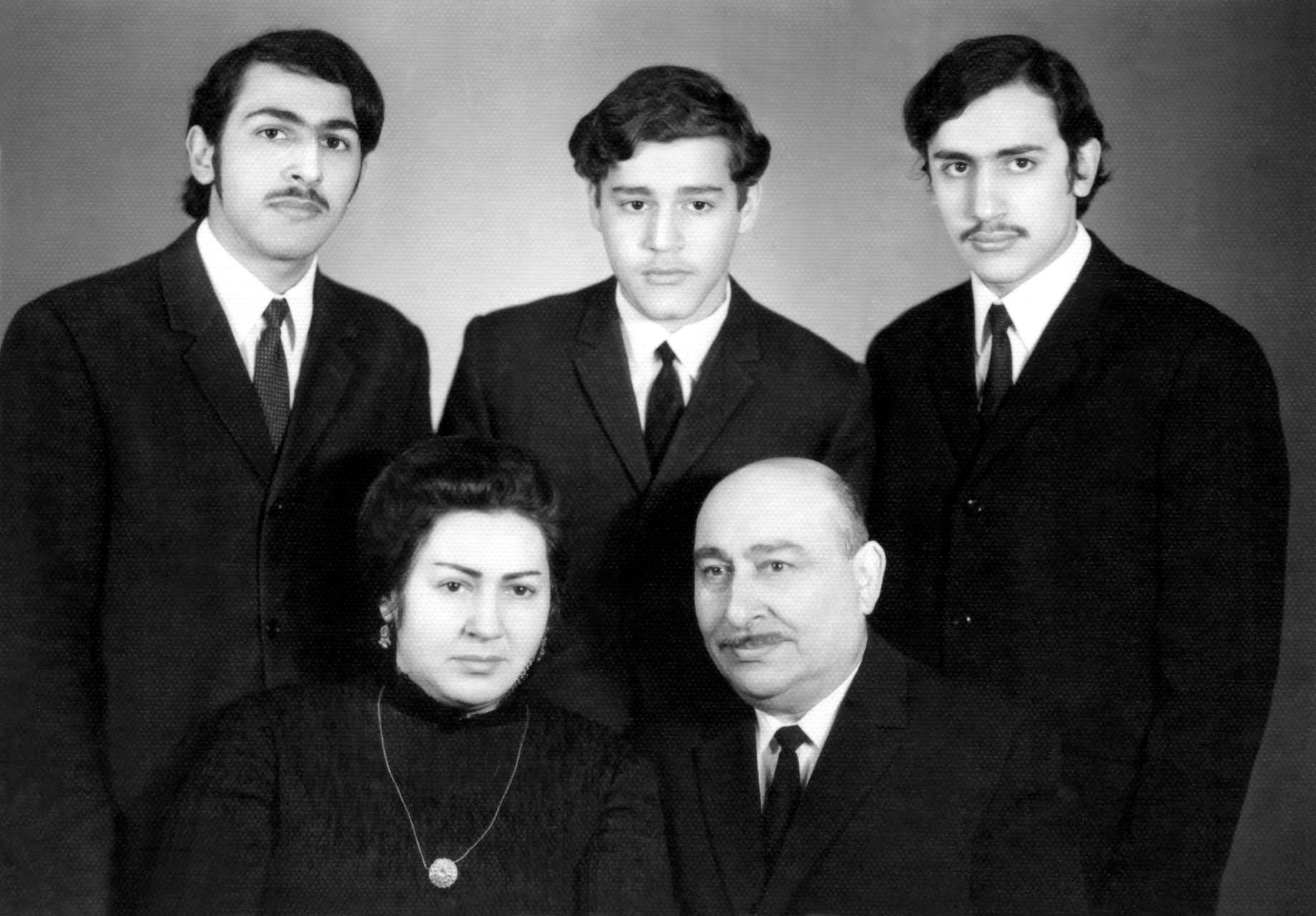 Aydin Mansurov, Elkhan Mansurov, Eldar Mansurov Sitting:Munavvar Mansurova and Bahram Mansurov. 1971